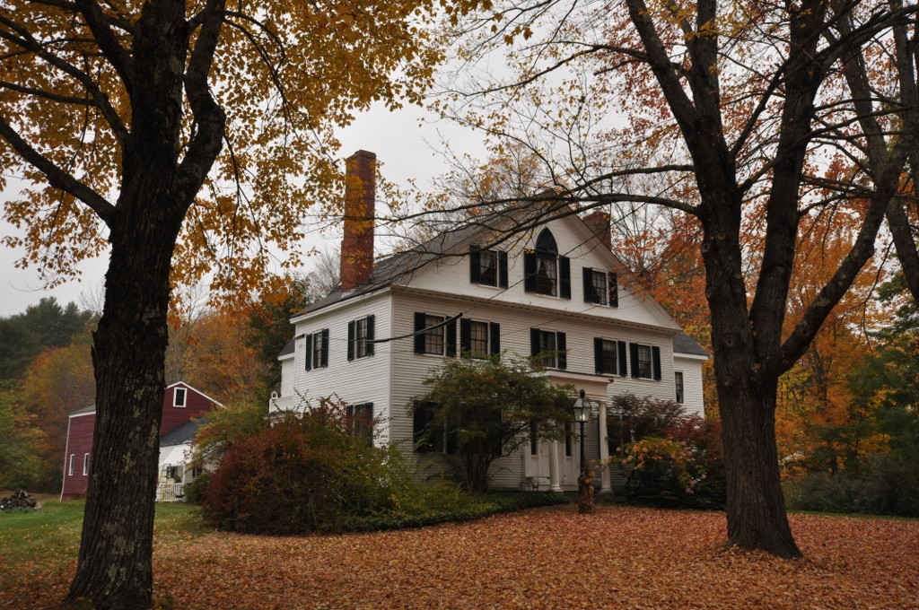 Kate Douglas Wiggin House, aka Quillcote, Salmon Falls Village, Hollis, Maine.